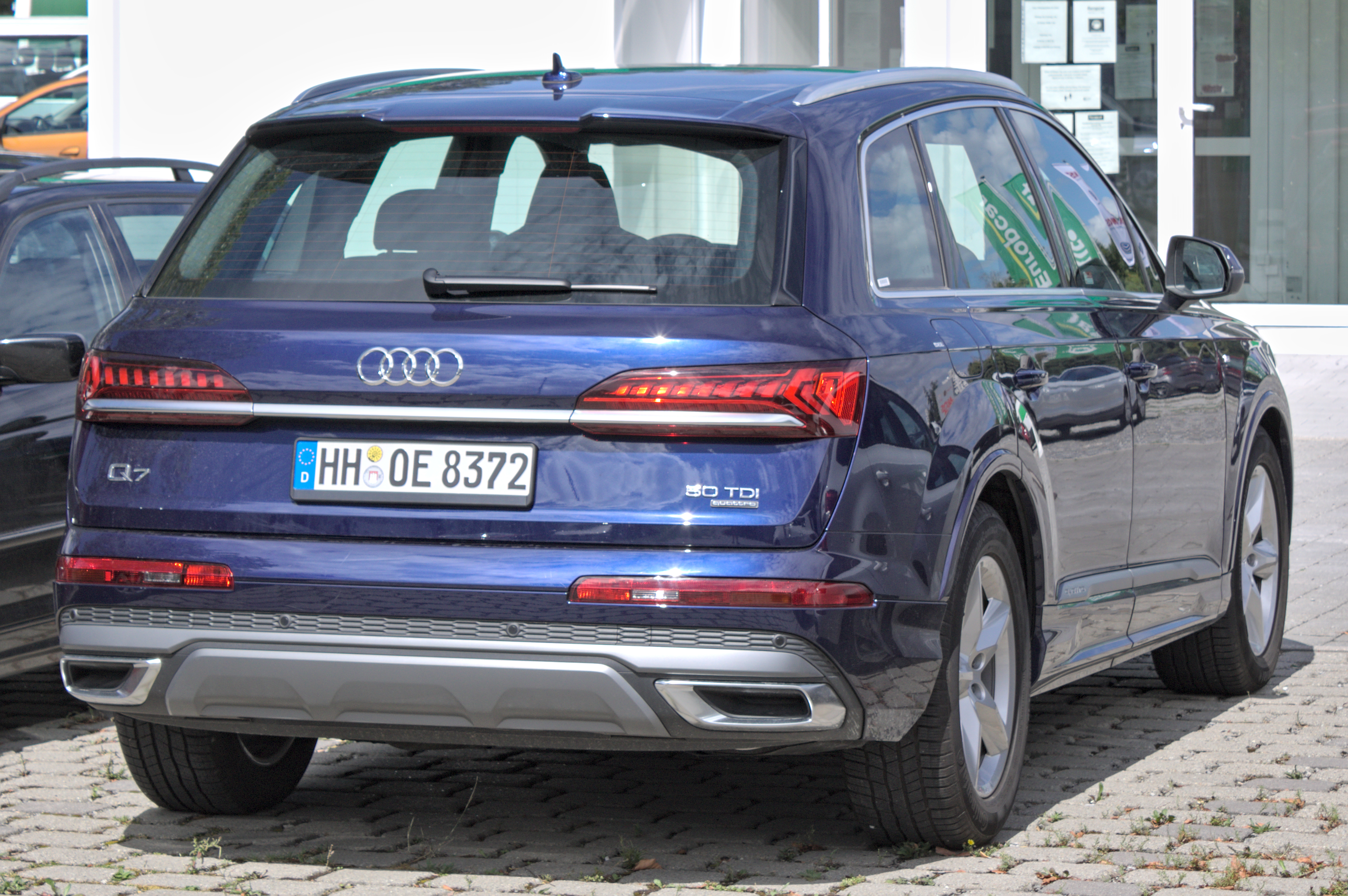 Audi_Q7_(4M)_FL in Stuttgart-Vaihingen